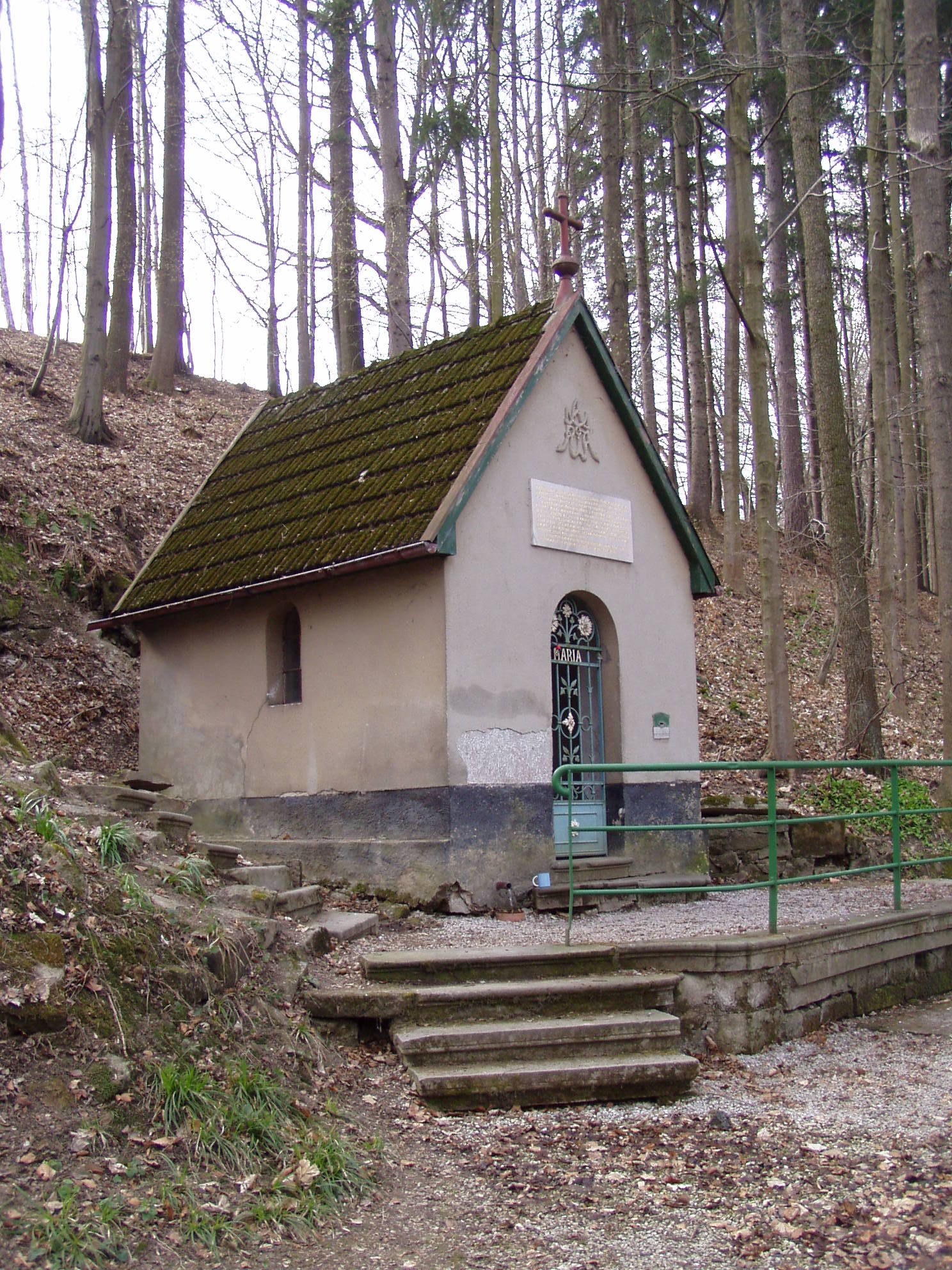 Chapel of Virgin Mary (Boušín)